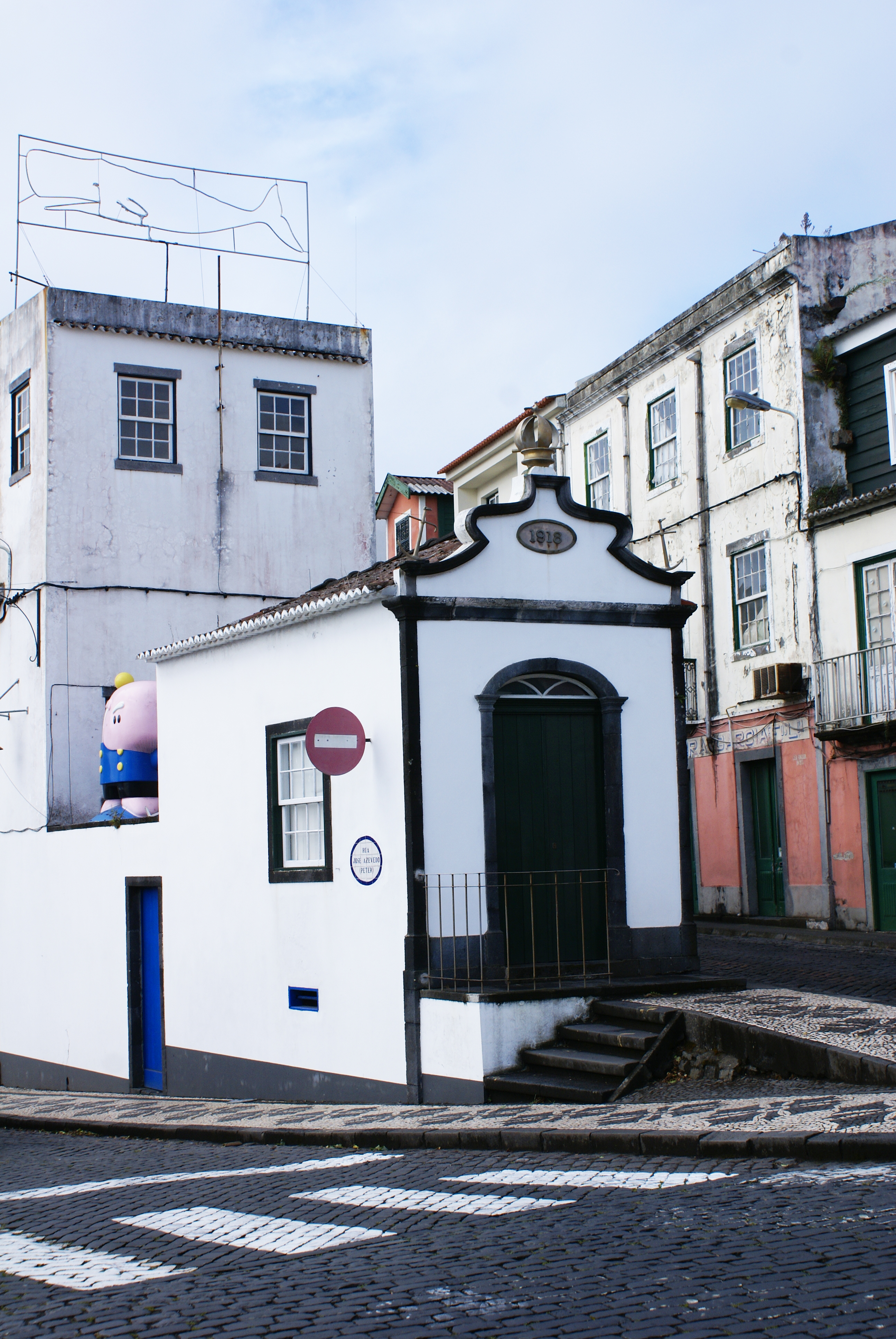 Império do Espírito da Infância, concelho da Horta, ilha do Faial, Açores, Portugal